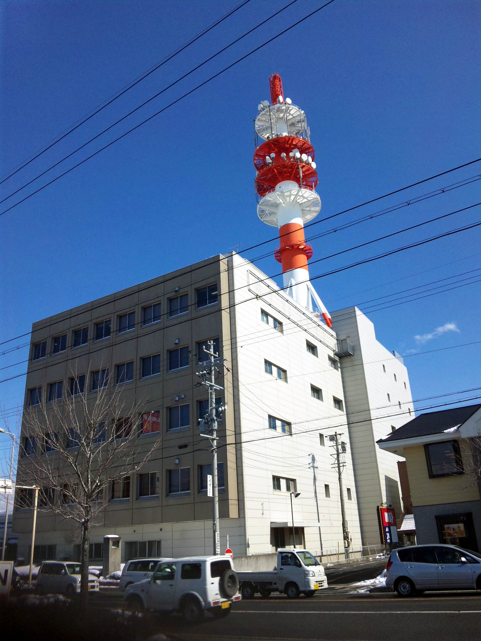 NTT EAST Matsumoto minami